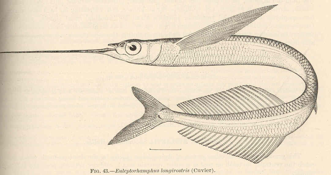 Euleptorhamphus longirostris (Cuvier) Subject: Halfbeaks, Euleptorhamphus Tag: Fish